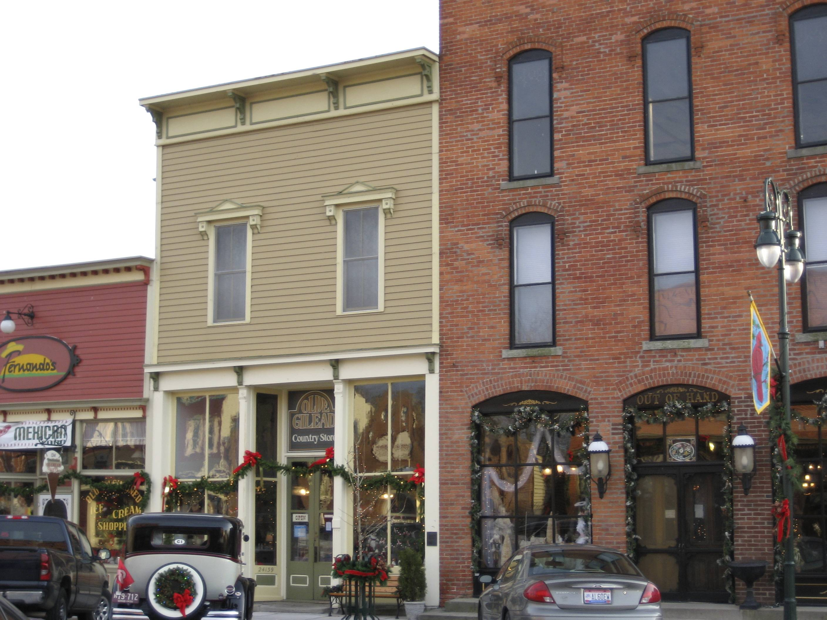 J.D. Zollars